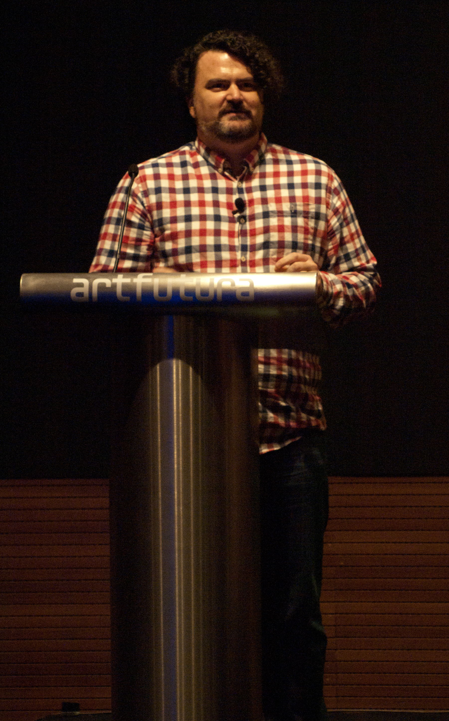 Tim Schafer at Art Futura in 2009